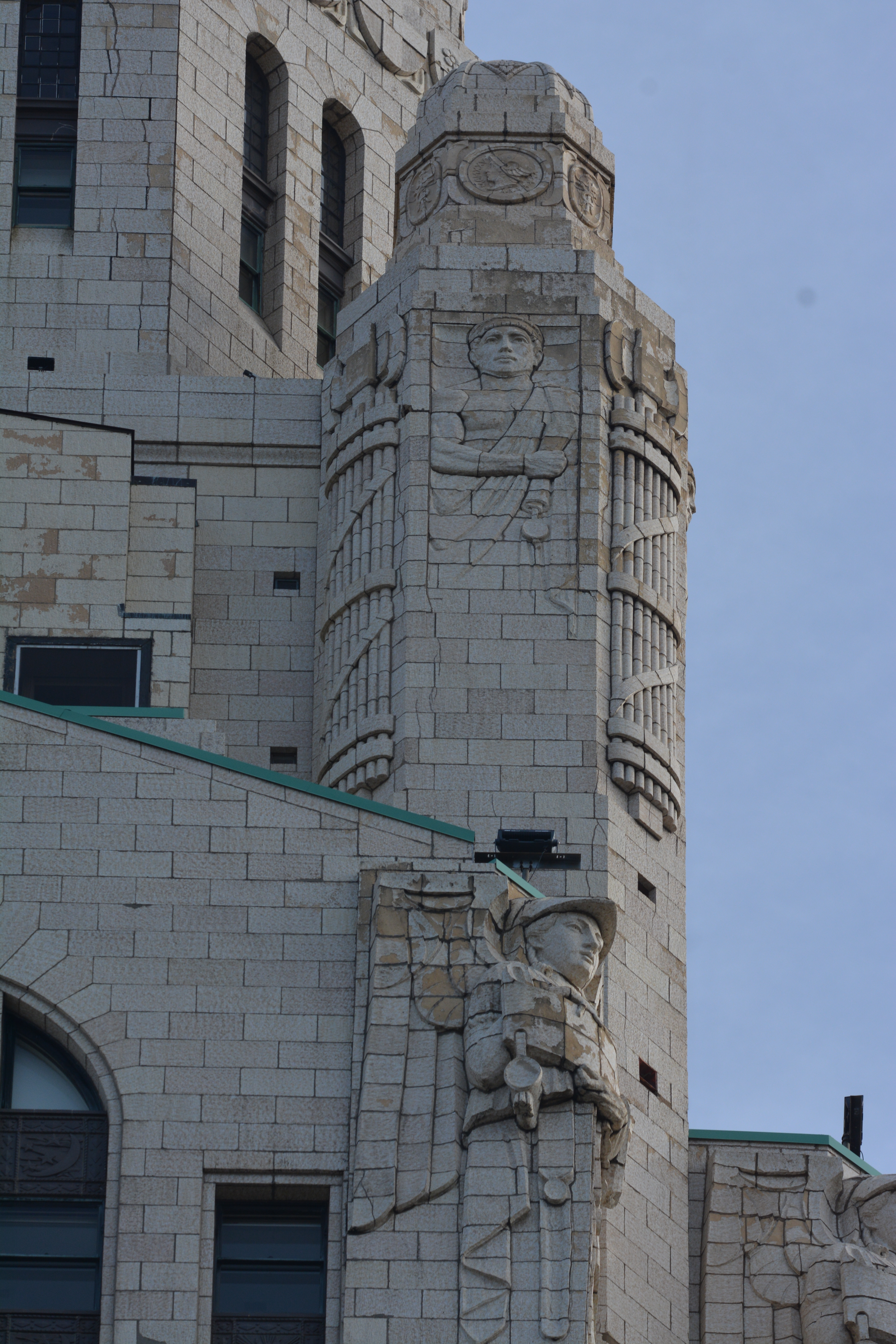 Details of the LeVeque Tower in Columbus, Ohio, US